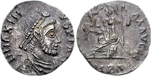 Maximus of Spain. Usurper, AD 409-411. AR Siliqua. Barcino (Barcelona) mint. Pearl-diademed, draped, and cuirassed bust right / Roma seated left on cuirass, holding Victory on globe and spear.